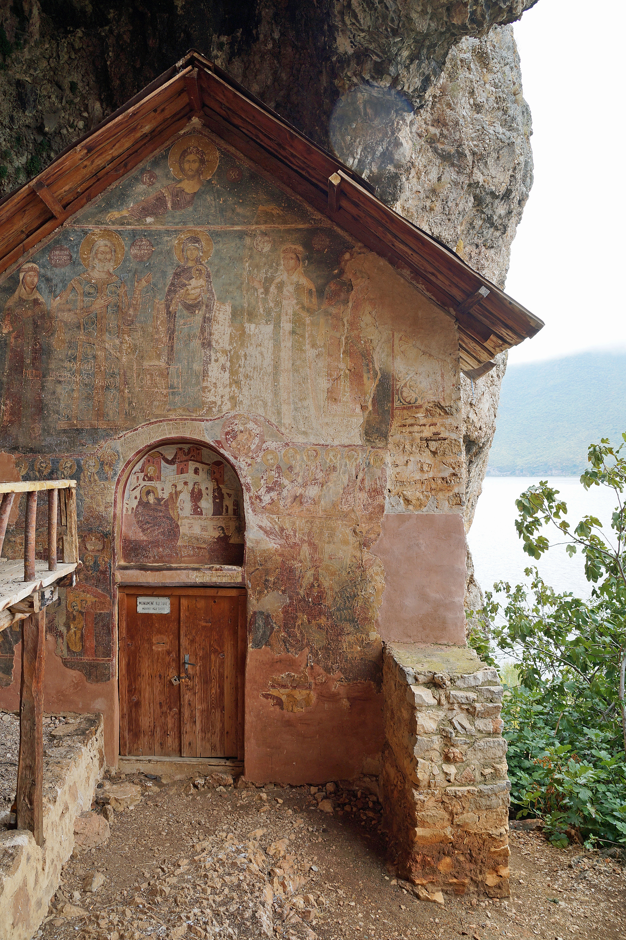 The small St. Mary's Church on Maligrad island in Lake Prespa, Albania